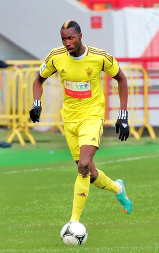 Lacina Traoré